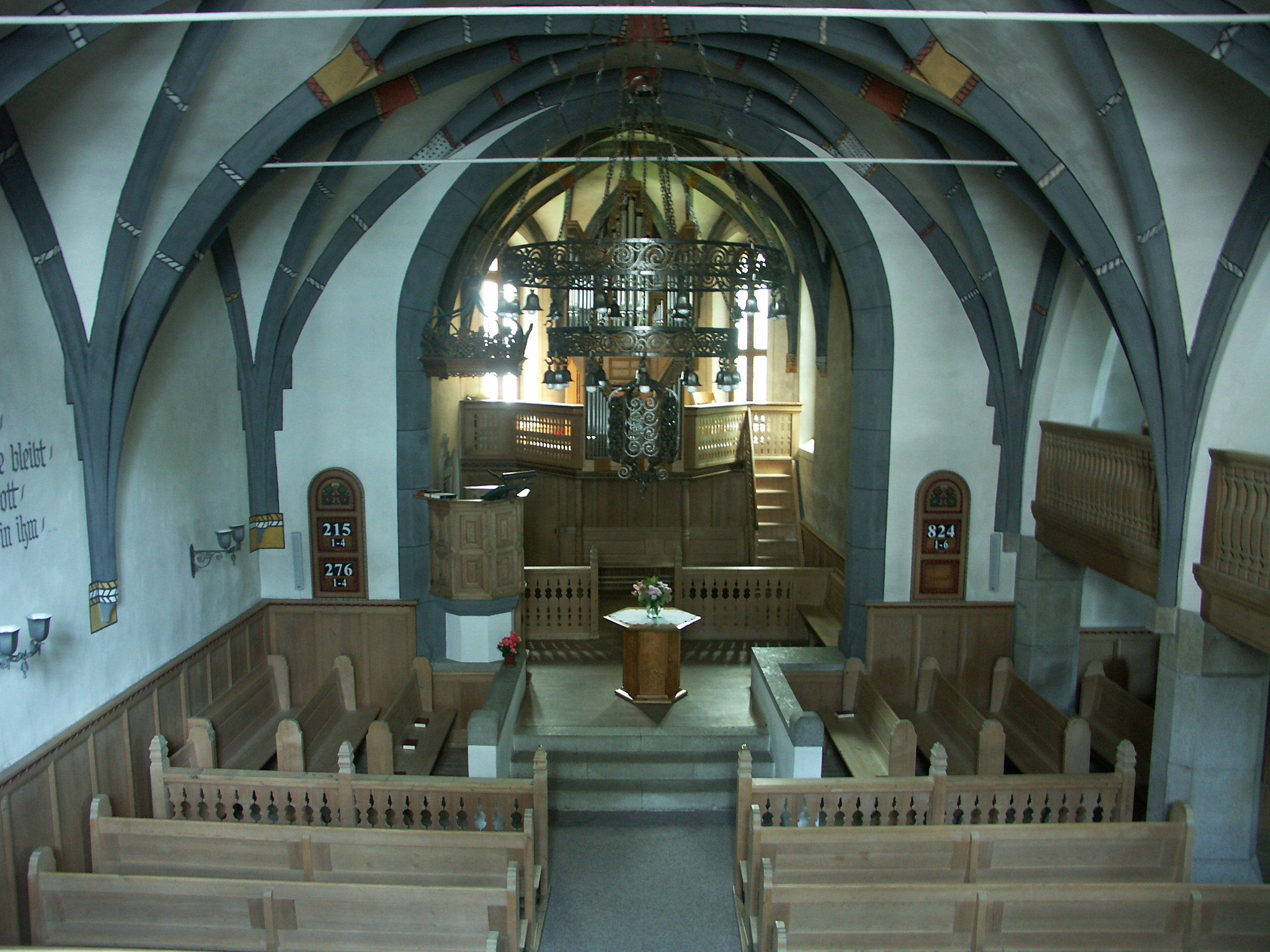 Church of St. Theodul, Davos, Switzerland